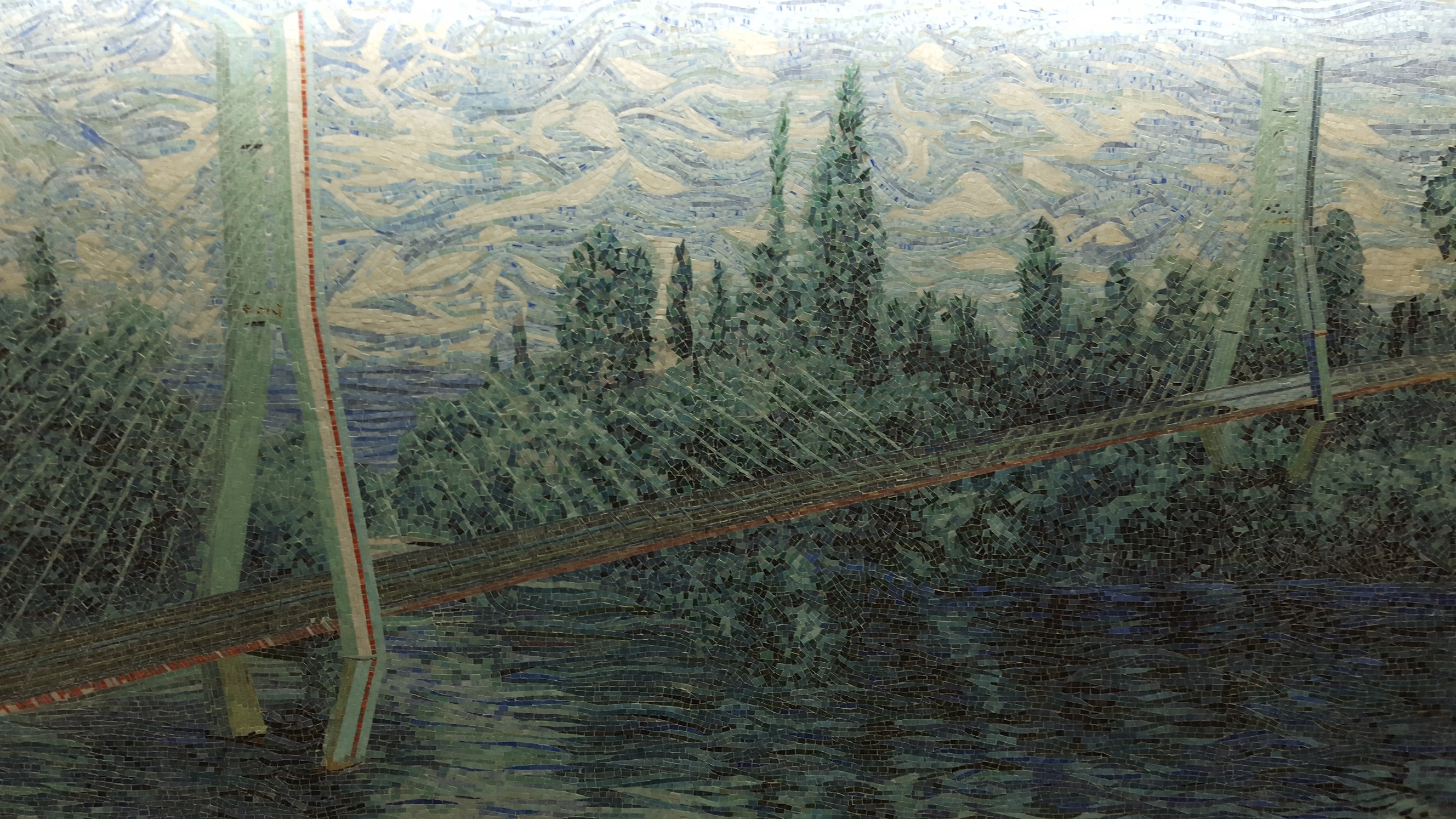 Art Wall in Zhuanyang Boulevard Station, Wuhan Metro